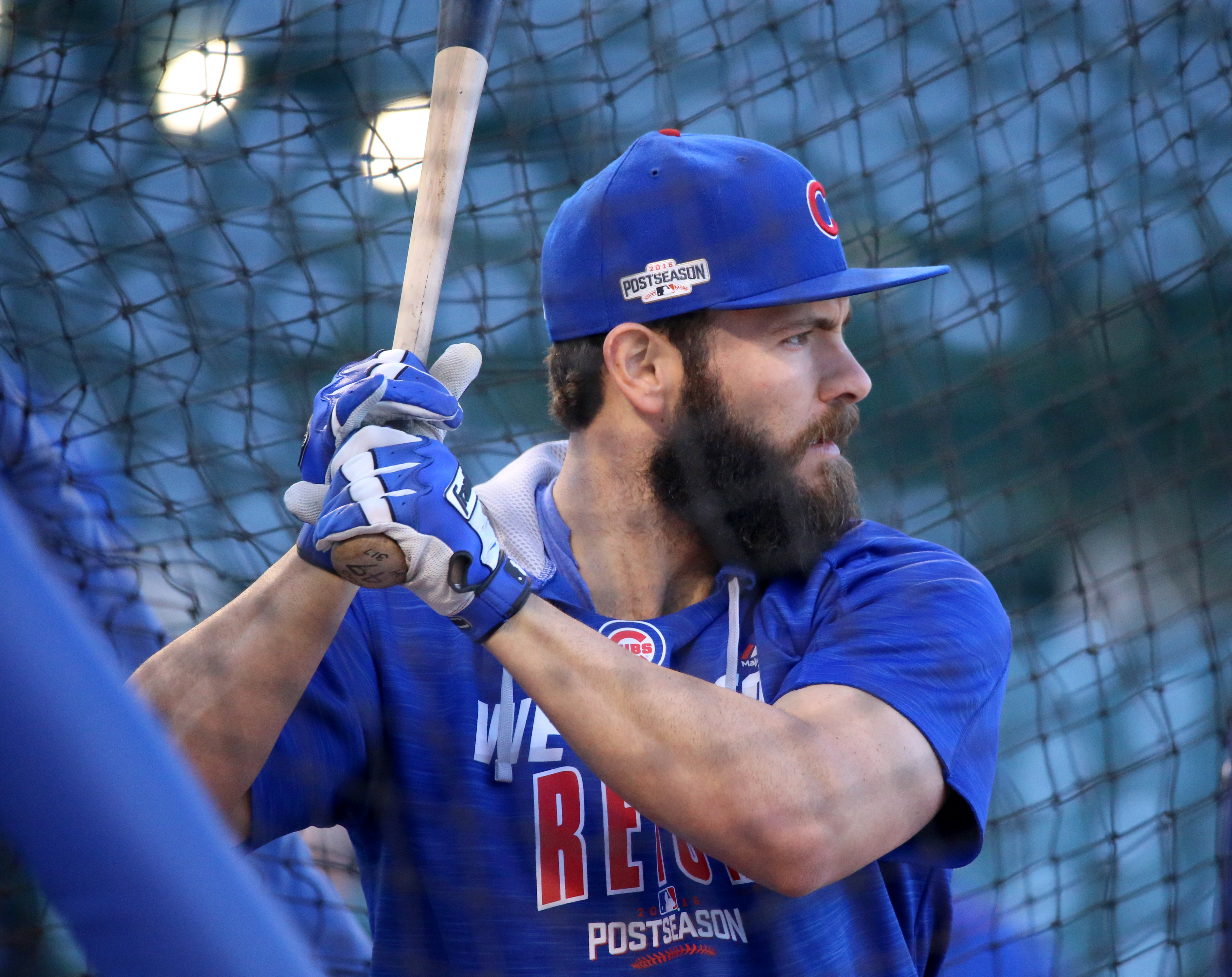 Cubs pitcher Jake Arrieta takes batting practice before NLCS Game 6.